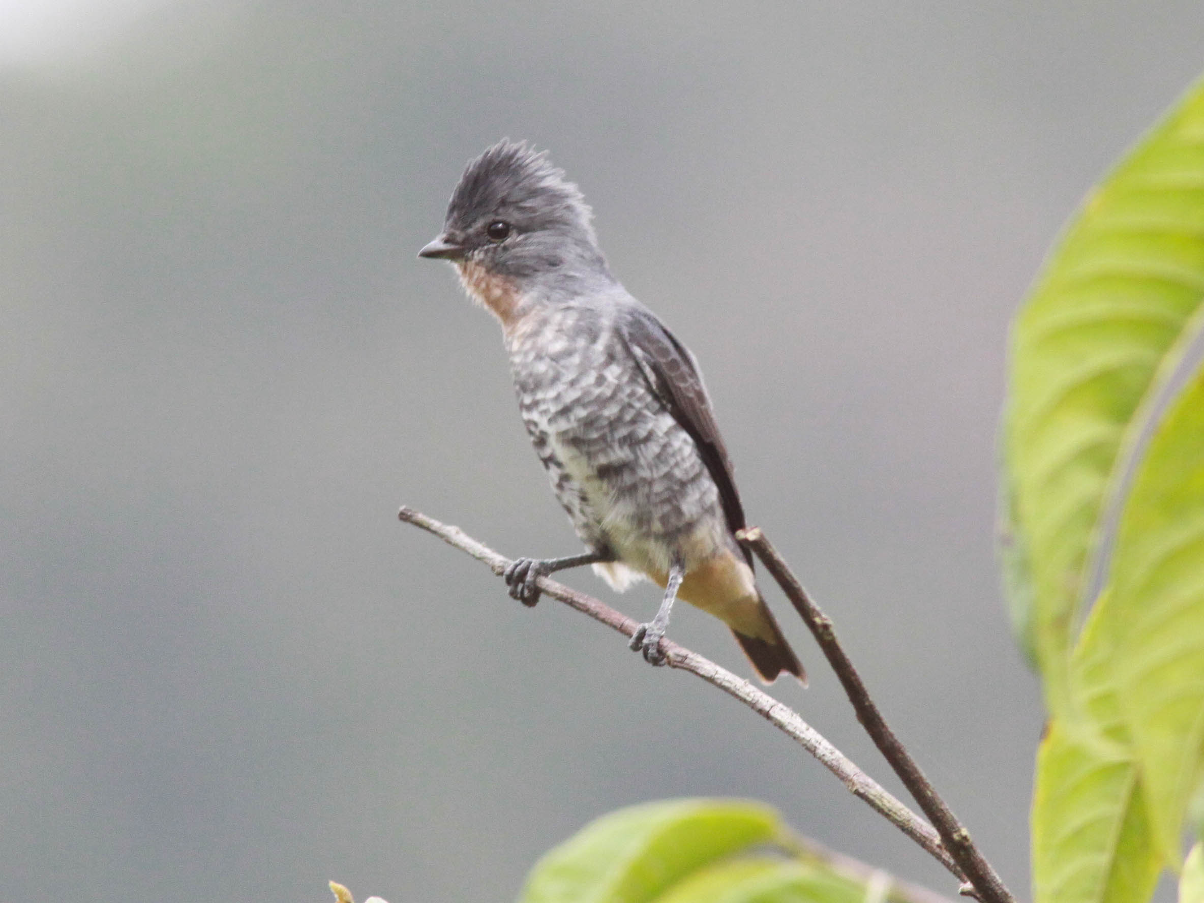 Iodopleura pipra